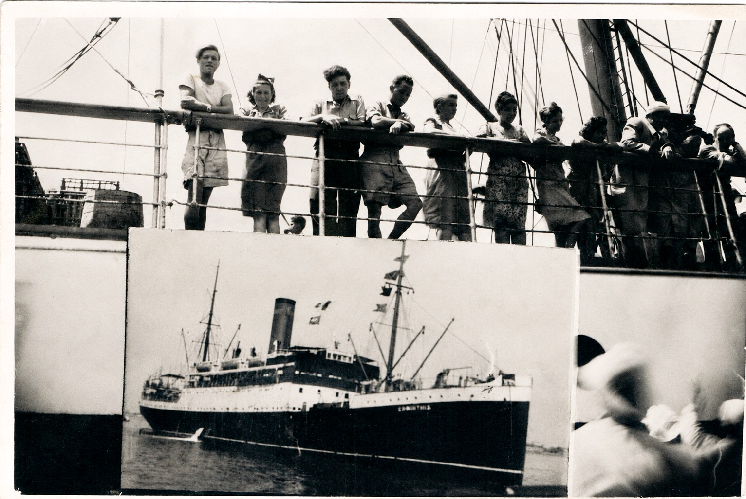 The Ship Corinthia, July 1947, Alexandria port. On the deck illegal and legal immigrants to Israel. In the left side my father, he was an illegal immigrant called "aliya dalet" beside him on the right my mother she was legal immigrant.